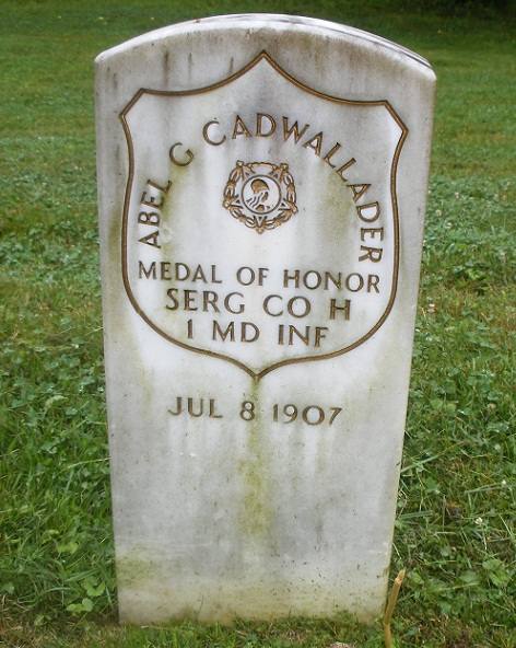 VA grave marker for Abel Cadwallader, Civil War Medal of Honor recipient, Loudon Park Cemetery, section YY, Baltimore, MD; photo taken by myself on 12 June 2012 Category:Images of Baltimore Summary VA grave marker for Abel Cadwallader, Civil War Medal of Honor recipient, Loudon Park Cemetery, section YY, Baltimore, MD; photo taken by myself on 12 June 2012 Category:Images of Baltimore